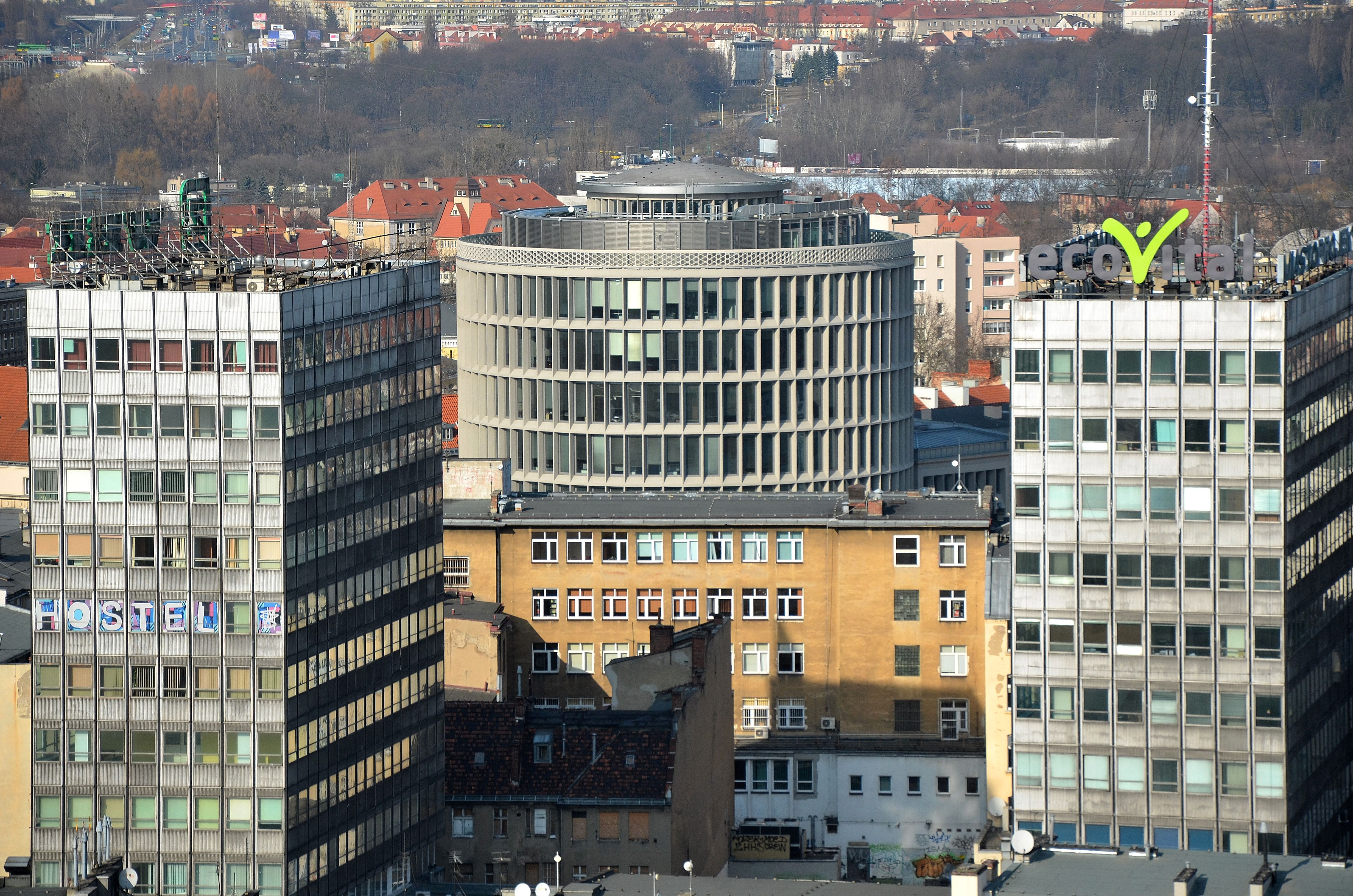 Okrąglak in Poznań viewed from Collegium Altum